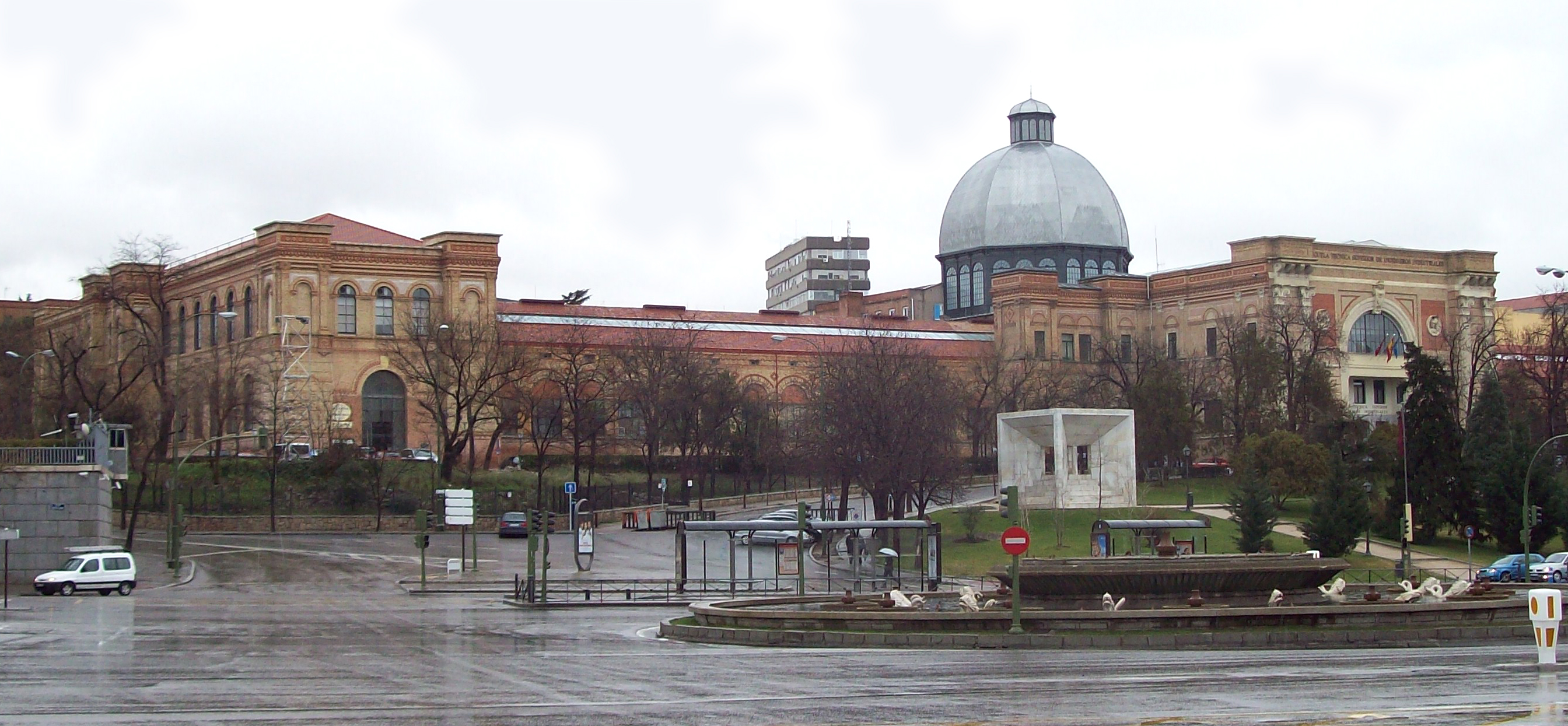 View of the so-called Palacio de las Artes e Industrias from Plaza de San Juan de la Cruz (square) in Madrid (Spain). It was projected in 1881 by Fernando de la Torriente and built from 1881 to 1886. Building is nowadays shared by the National Museum of Natural Sciences and the Technical School of Industrial Engineering (part of the UPM).